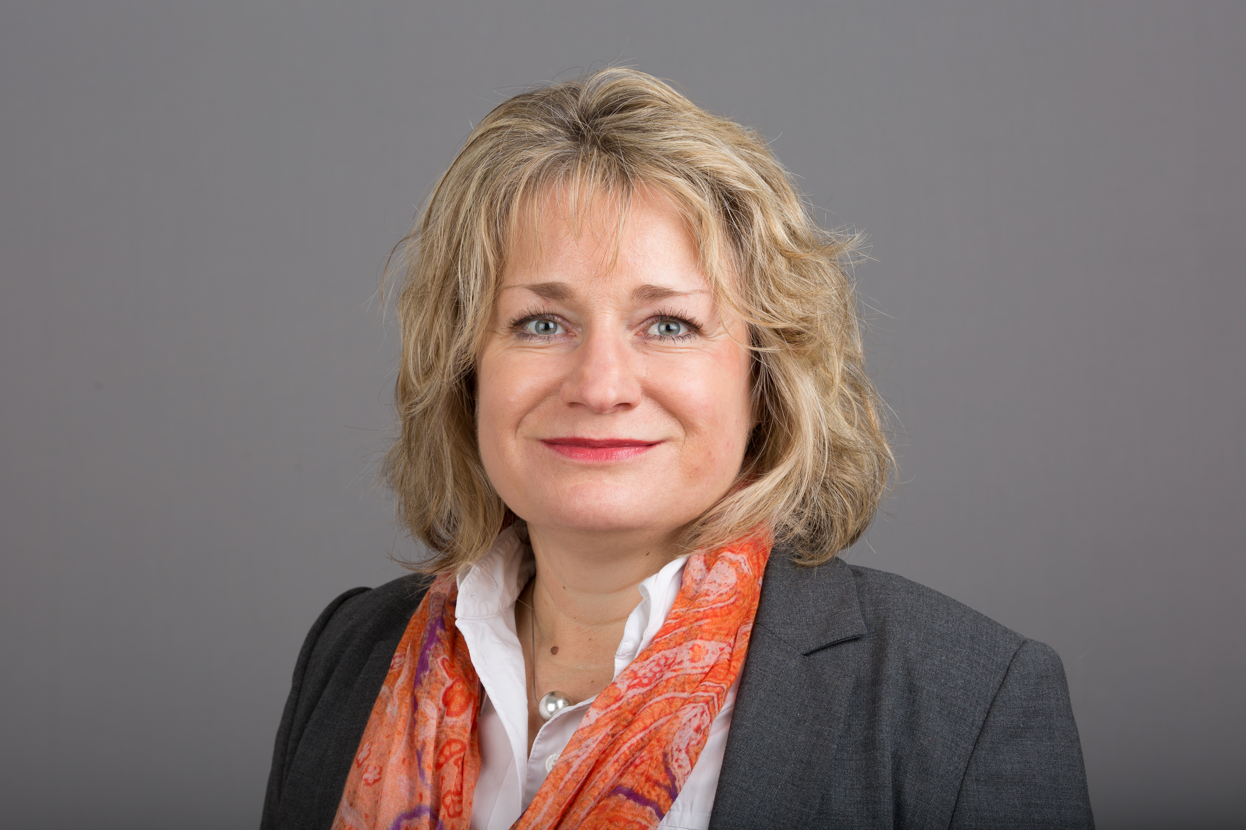 Angelika Löber, member of the Landtag of Hesse